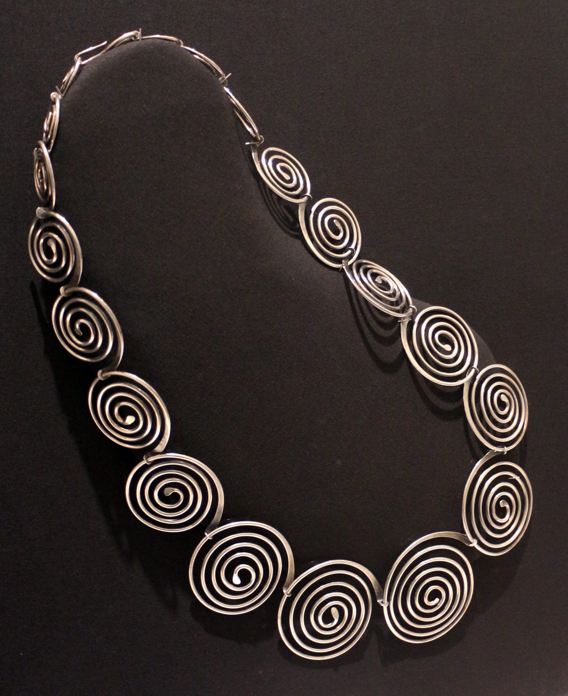 Metalware in the Milwaukee Art Museum